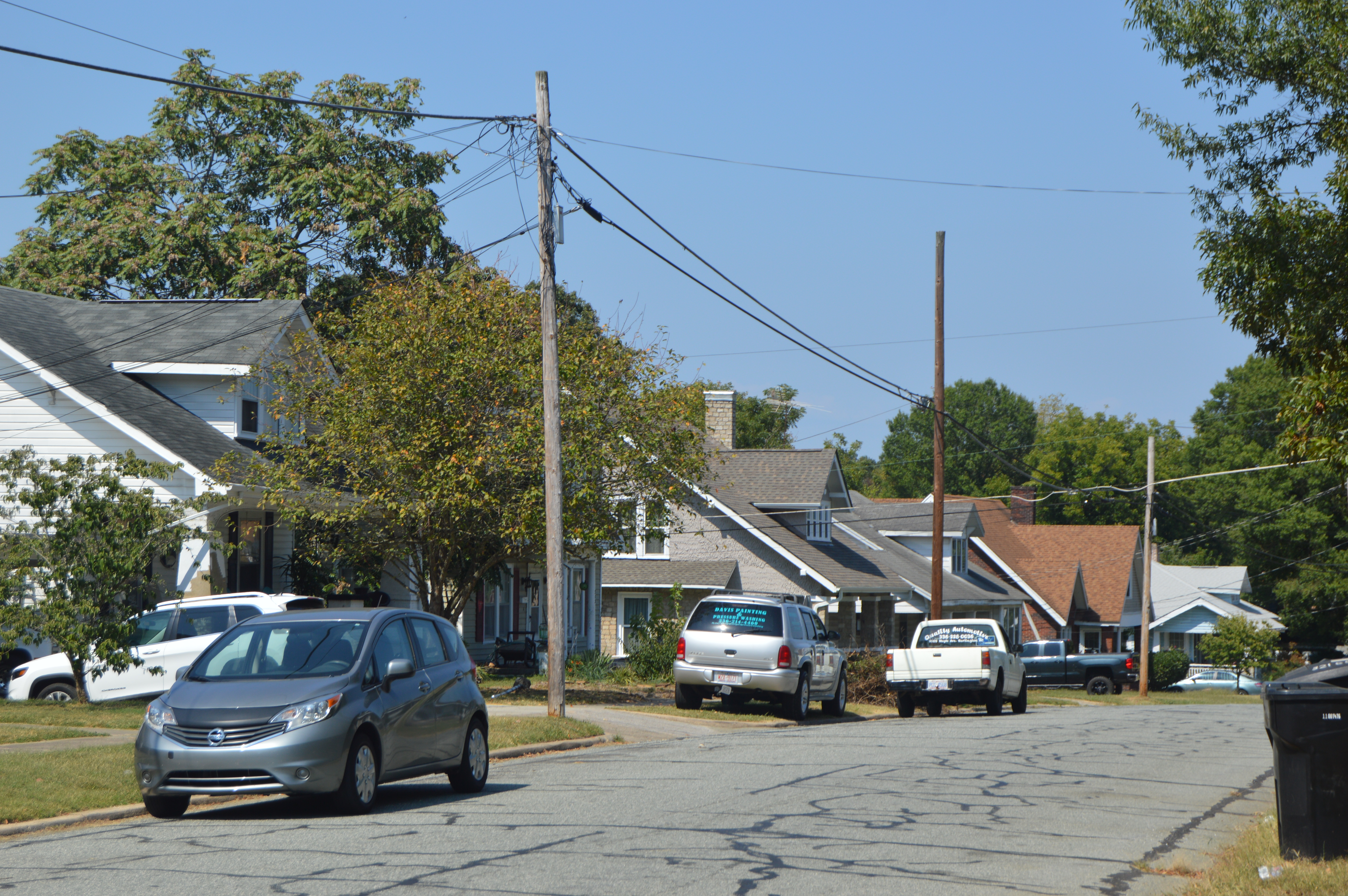 Houses on Fifth Street, seen looking north from the Oxford Lane intersection, in Burlington, North Carolina, United States. This block is part of the South Broad-East Fifth Streets Historic District, a historic district that is listed on the National Register of Historic Places.